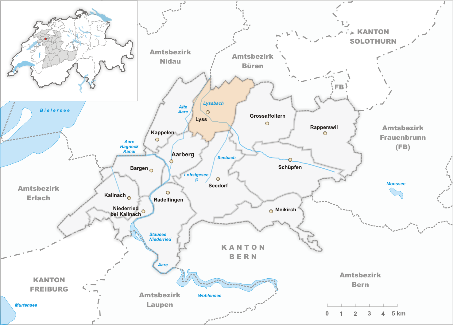 Municipality Lyss